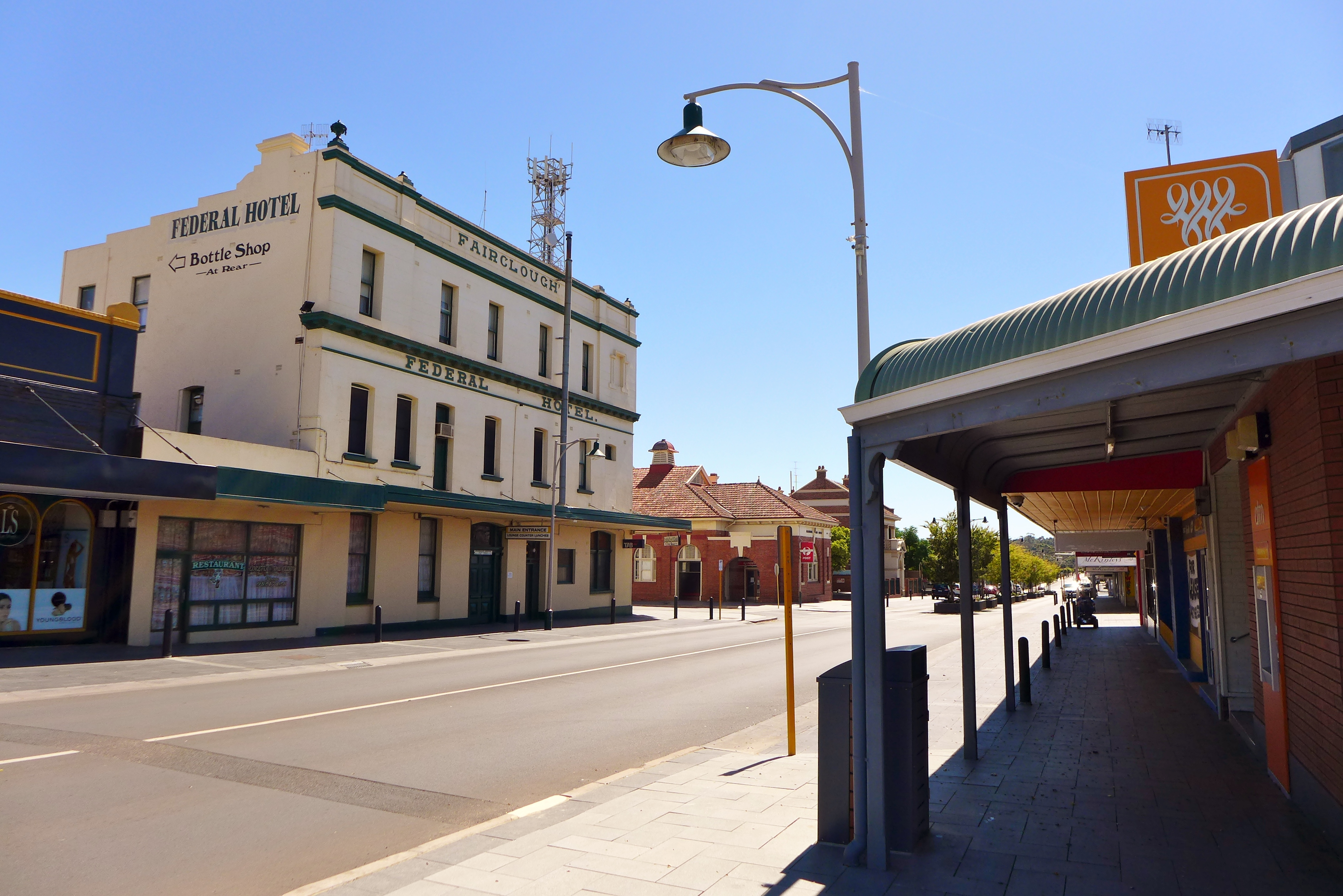 View of Clive Street, Katanning, Western Australia